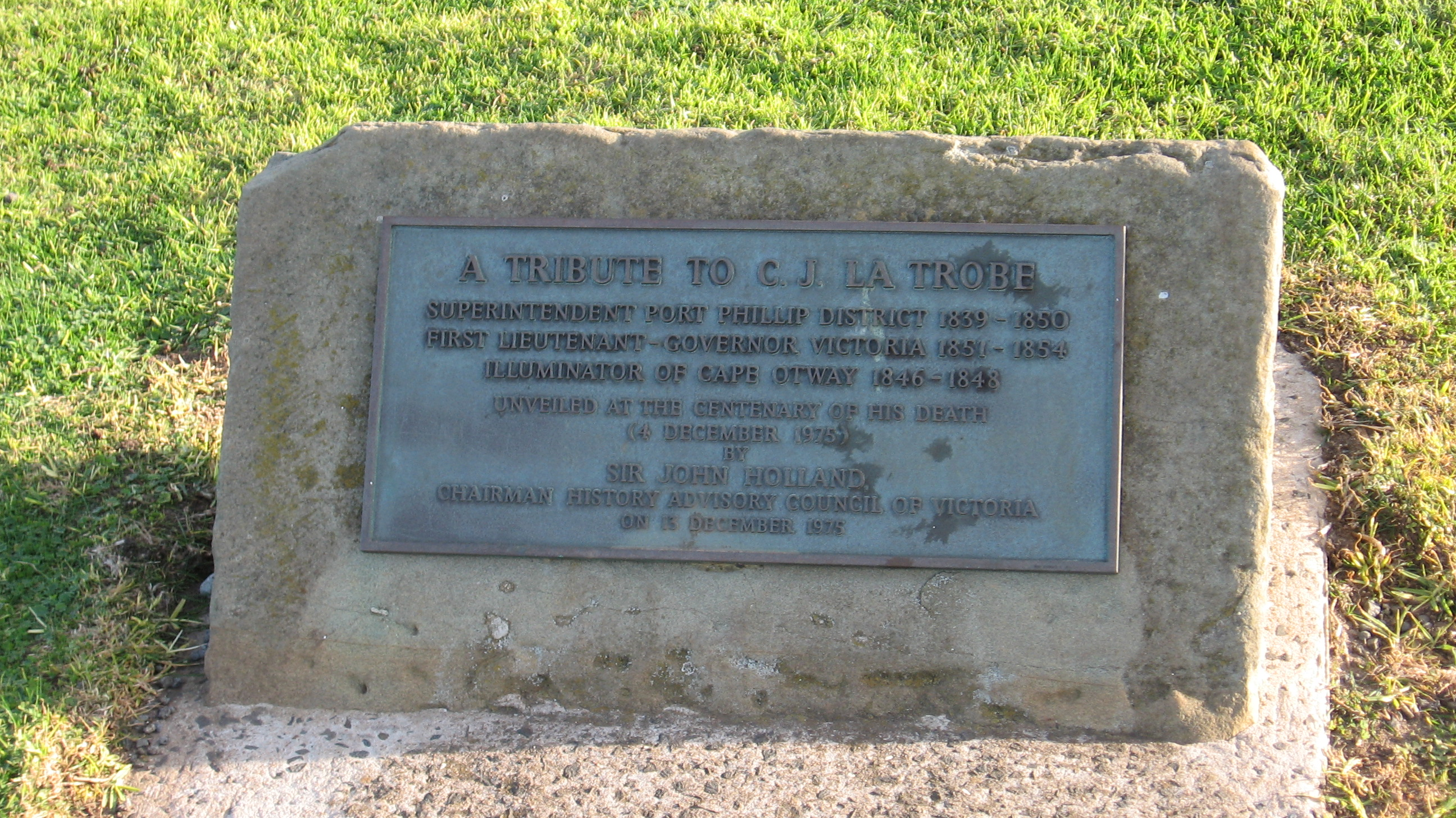 Memorial plaque for Charles La Trobe at Cape Otway. The inscription is: A tribute to C.J. La Trobe Superintendent Port Phillip District 1839–1850 First Lieutenant-Governor Victoria 1851–1854 Illuminator of Cape Otway 1846–1848 Unveiled at the centenary of his death (4 December 1975) by Sir John Holland Chairman History Advisory Council of Victoria on 15 December 1975